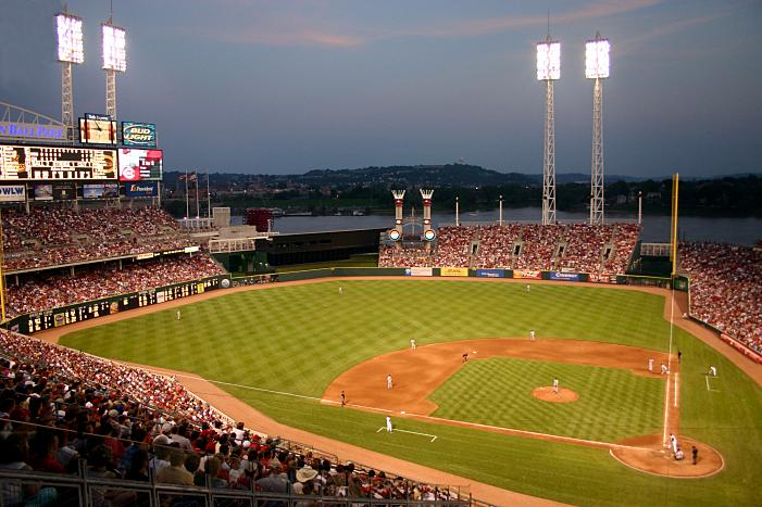 23:18, 23 May 2004 . . Rdikeman . . 701×467 (65,895 bytes) (The view from "The Gap" in Great American Ball Park, Cincinnati, 2004, by Rick Dikeman)